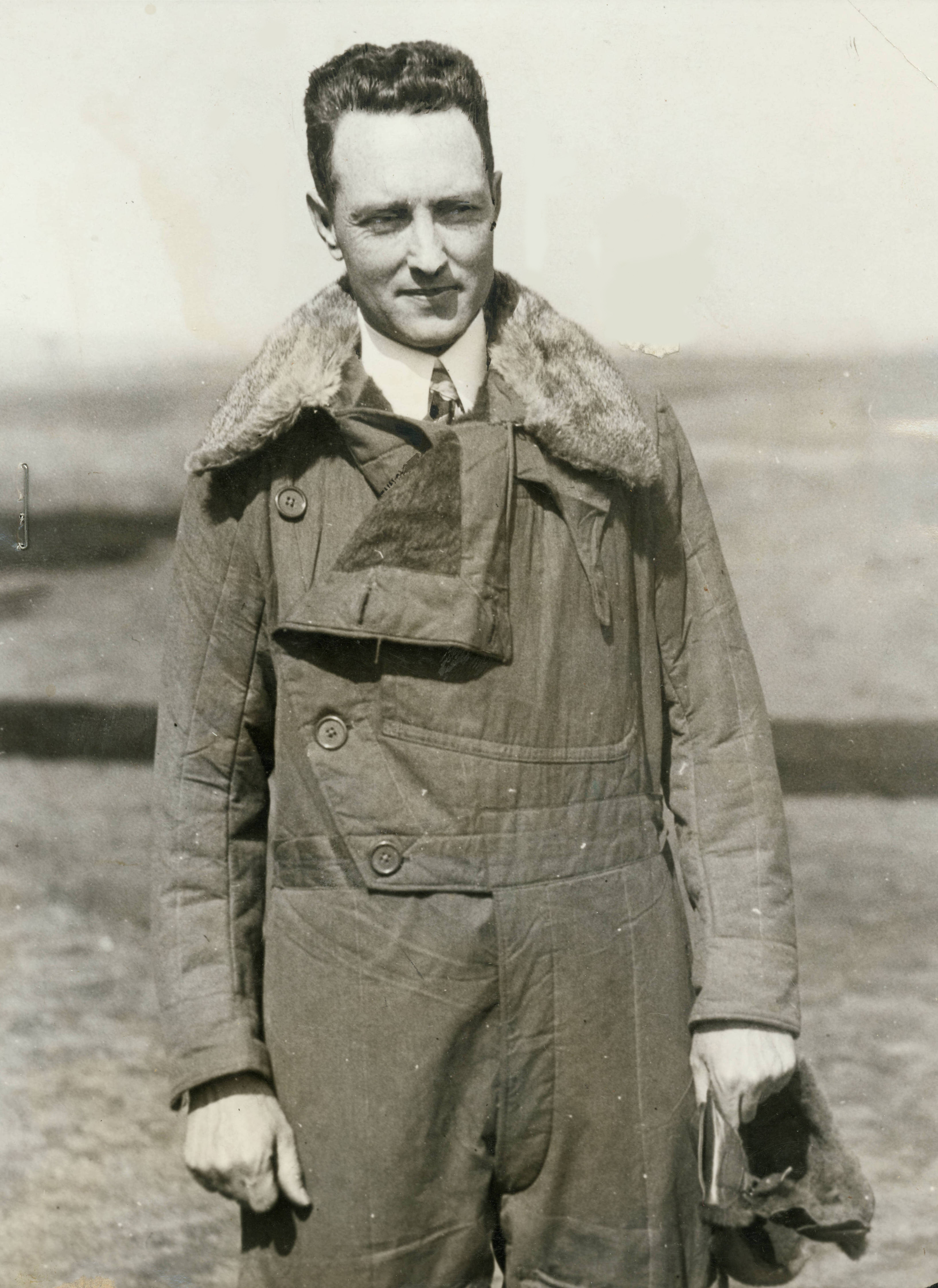 Richard Byrd in flight jacket, 1920s Richard Byrd in flight jacket, 1920s.; With the South Pole conquered in 1911, the "heroic" age of Antarctic exploration ended. However, much of the interior remained to be discovered. In 1929 Richard Byrd reignited popular interest in the area when he made the first flight over the pole. Byrd established five successive bases in Antarctica (called Little Americas I-V) and led U.S. research on the continent until his death in 1957. His exploits were so well known that other countries raced south to set up permanent bases and claim portions of the land as their own. Date created: not after 1920/1929 Publisher (of the Digital Version): University of Southern California. Libraries Repository Name: USC Libraries Special Collections Format (aat): photographs Repository Legacy Record ID: exbt-m103 Subject (naf Personal Name): Byrd, Richard Evelyn, 1888-1957 Archival file: exbt_Volume11/exbt-iceberg-47.tiff Rights: public domain Filename: exbt-iceberg-47 Access Conditions: Send requests to address or e-mail given. Phone (213) 821-2366; fax (213) 740-2343. Coverage date: 1920/1929 Repository Address: Doheny Memorial Library, Los Angeles, CA 90089-0189 Part of collection: Library Exhibits Collection Subject (lcsh): Explorers Type: images Part of subcollection: Beyond the Tip of the Iceberg: The Discovery and Exploration of Antarctica. Doheny Memorial Library, Fall 2002 Geographic Subject (Country): USA